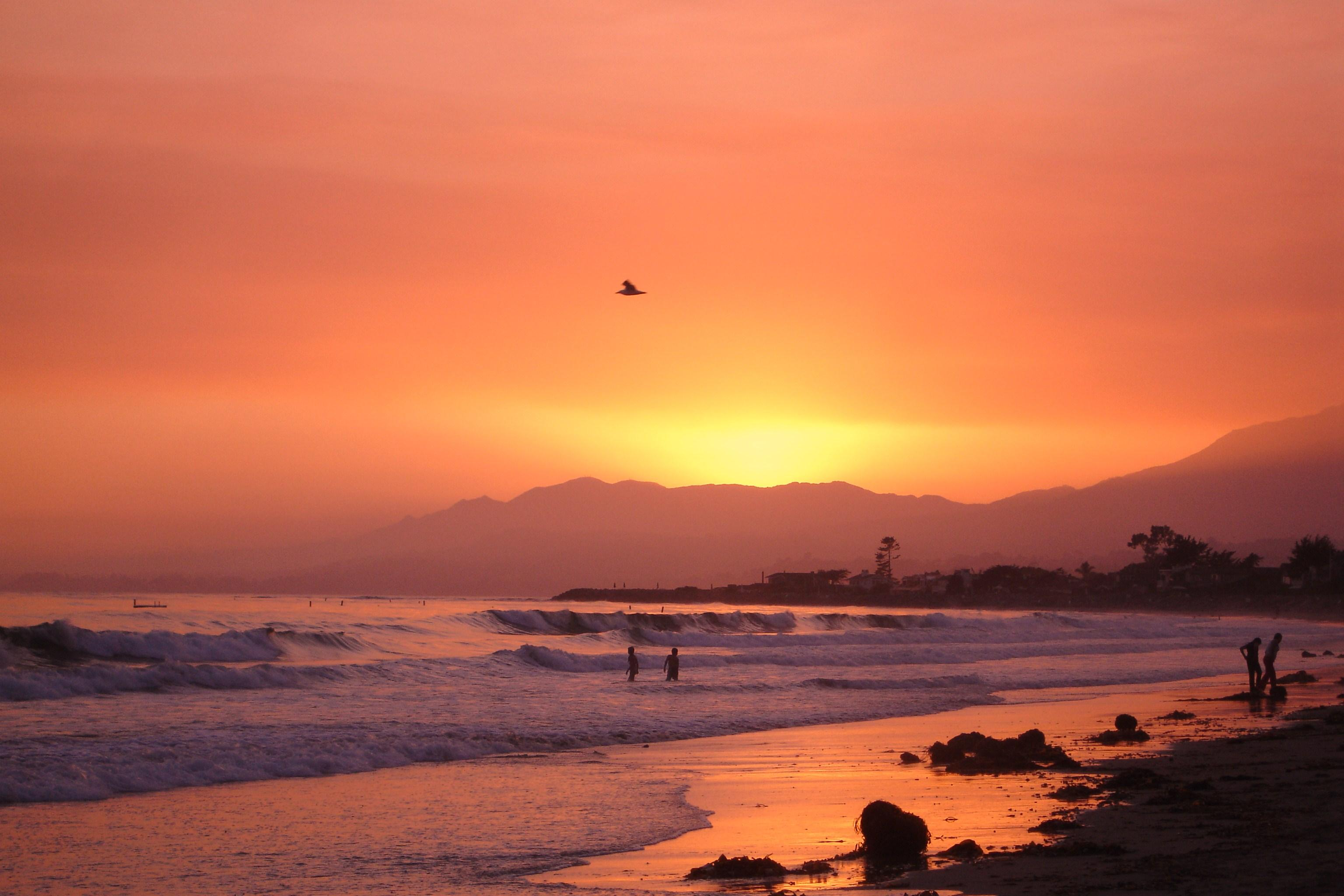 Carpinteria sunset — in Santa Barbara County, Southern California.